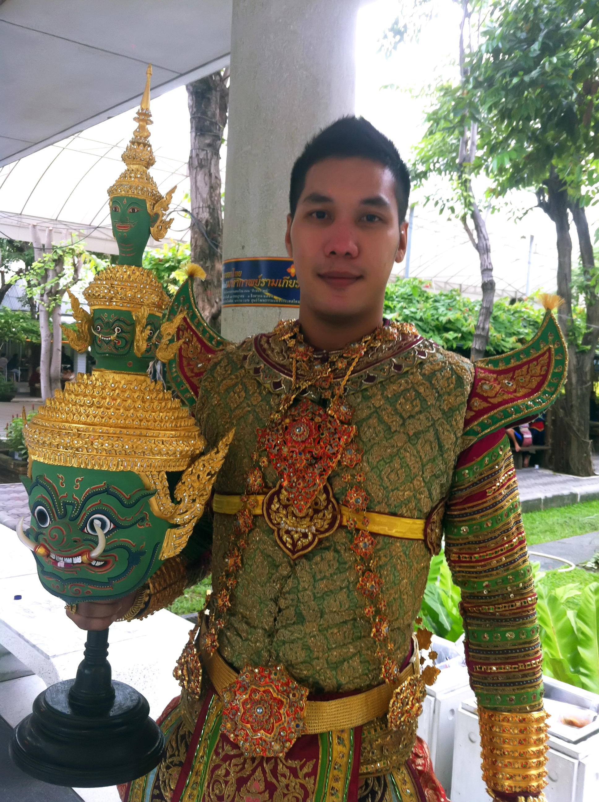 Actor Tosakanth form The Masked Play "The Battle of Maiyarap" 15th-31st July 2011, Main Hall, Thailand Cultural Center